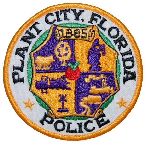 Plant City, Florida Police Department patch